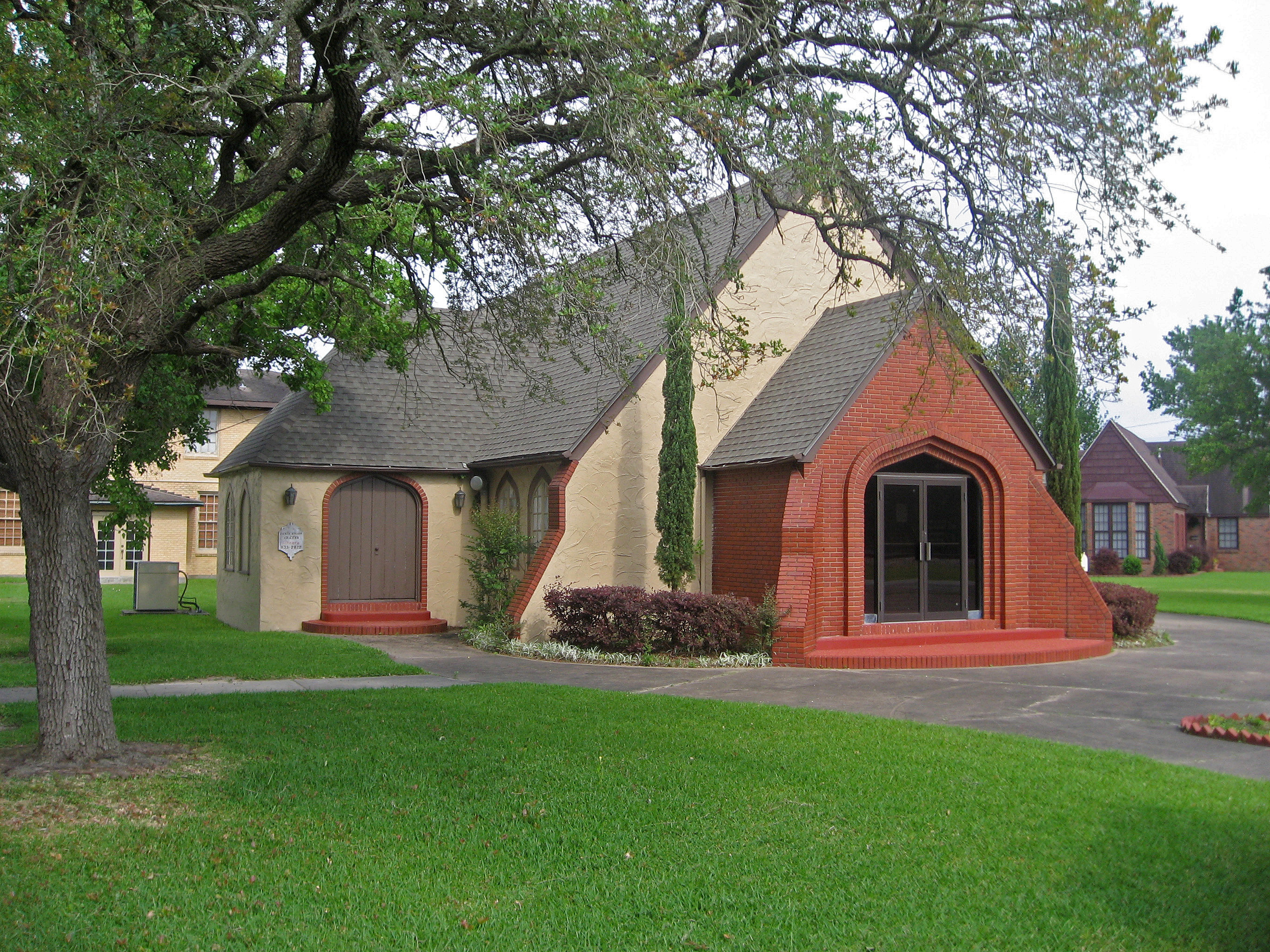 Established about 1895 by Laura Stewart and Julia Parr Munson. This Church is distinguished by a history of strong community involvement. The congregation has been led by various Methodist, Presbyterian, and other protestant clergy and has served an interdenominational congregation throughout its history. The site of the original church building destroyed in the 1900 storm became a cemetery in which many of the storm's victims were buried. Services were held at B. F. Ayers' home until a new structure was built adjacent to the cemetery about 1913. The church incorporated as La Marque Union Protestant Church in 1927. A new sanctuary was completed in 1933 with the help of Mrs. Paul Naschke. Her financial assistance was extended on the condition the church be named after her late husband. A well-known local photographer and contributor to church affairs. The church was renamed Paul's Union Church in 1933. Various community groups, including La Marque's Garden Club and its civic club used church facilities.